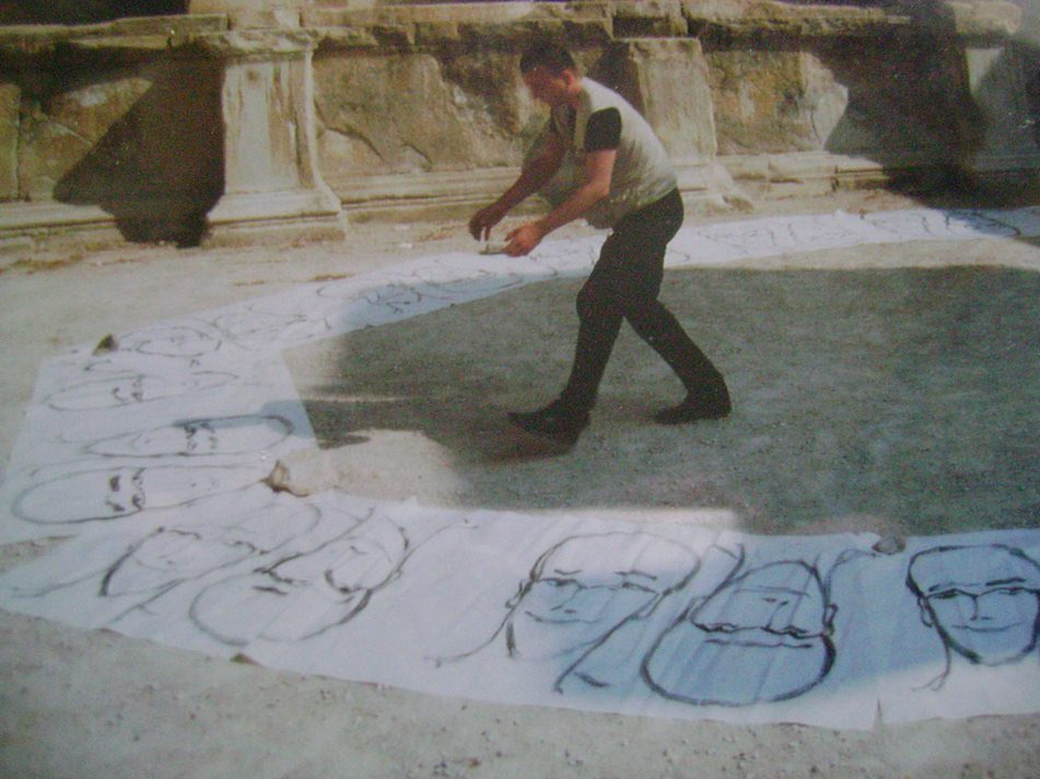 Fine Arts, Performance